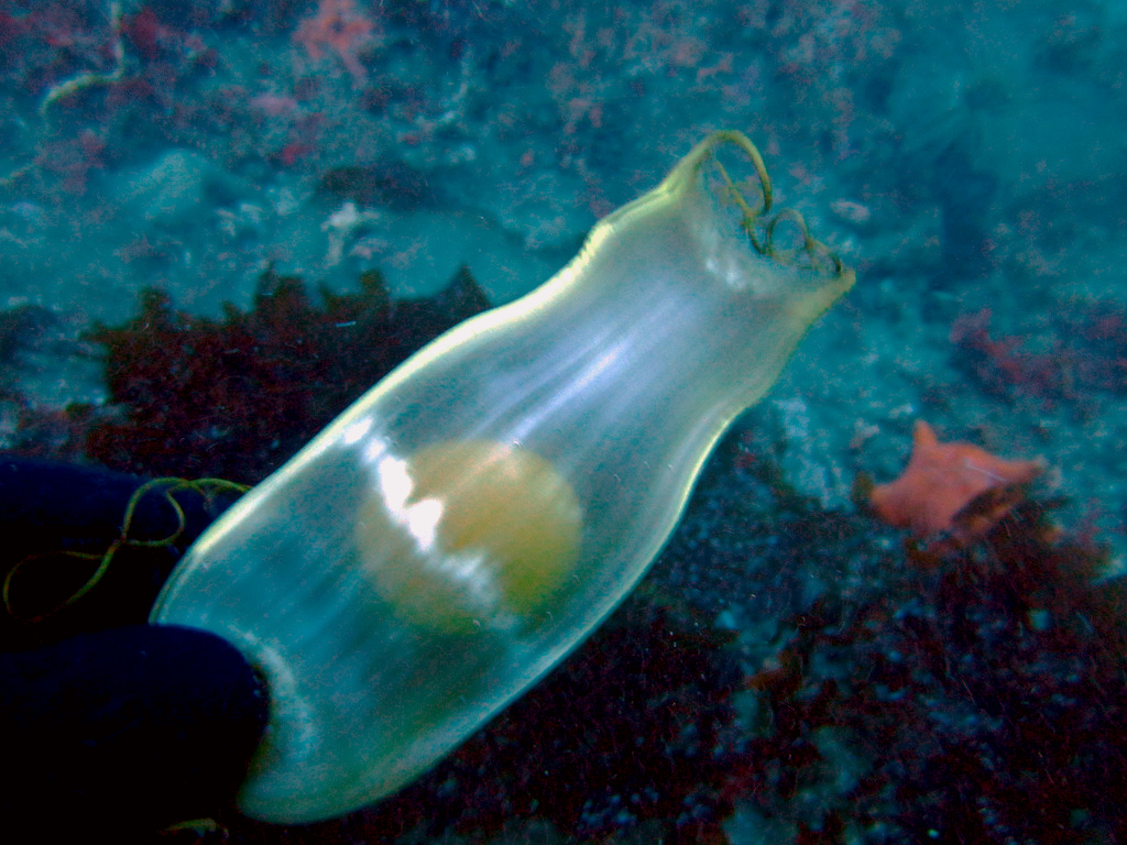 Swell shark (Cephaloscyllium ventriosum) egg case, Northern Channel Islands